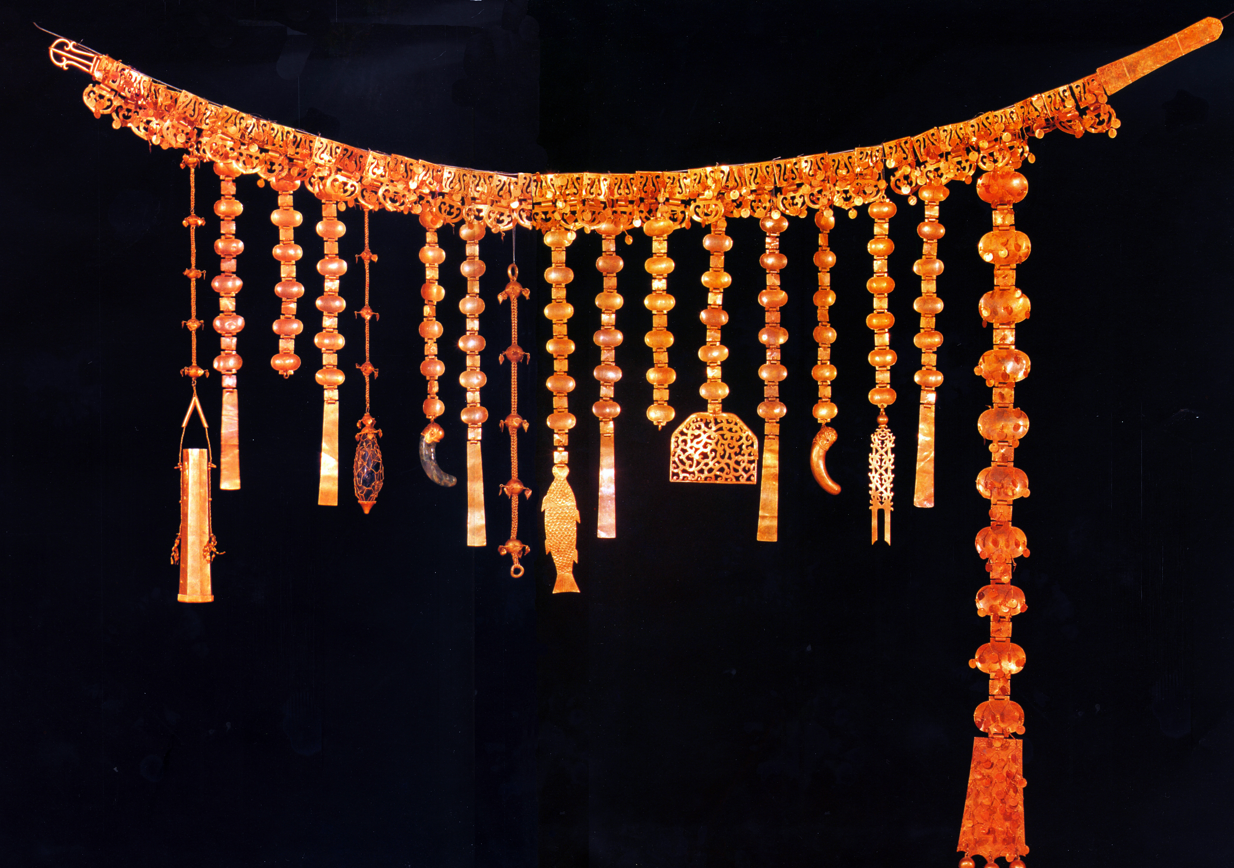 Gold Belt from Geumgwanchong Royal Tomb in Gyeongju, Korea